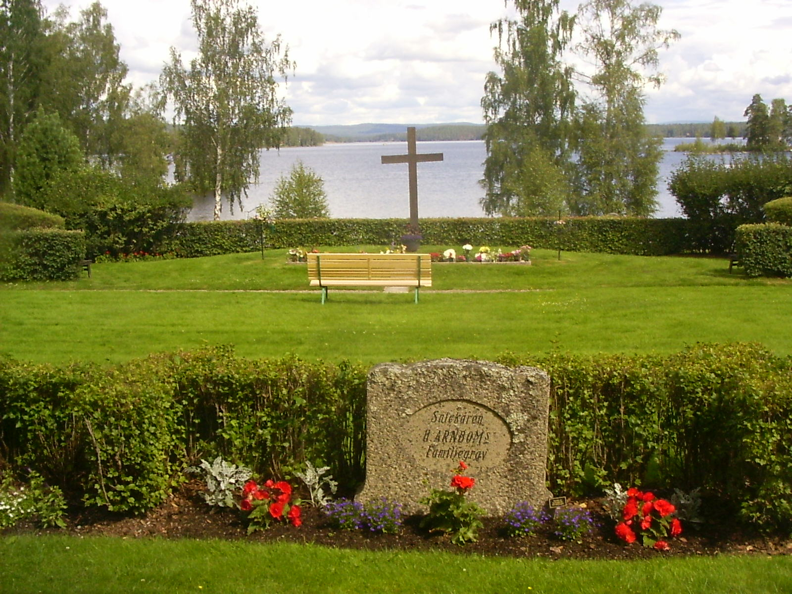 Sundborn cemetery with view of the lake